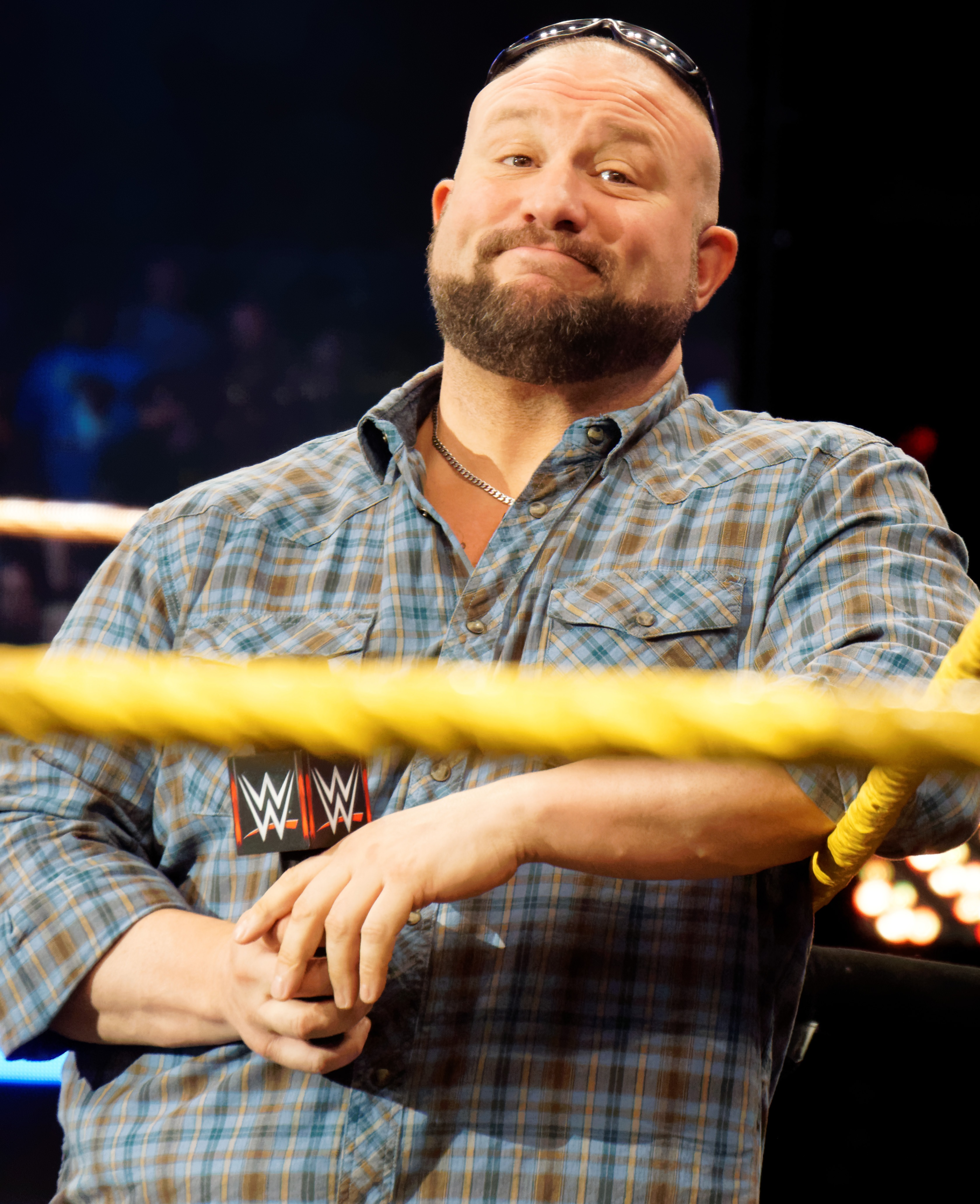 Professional wrestler Bubba Ray Dudley in April 2016.